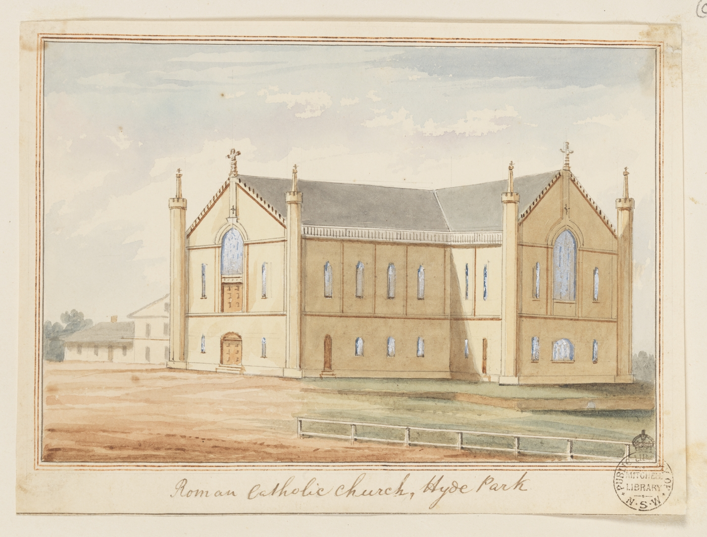 Painting by Fred Garling of the first St Mary’s Catholic church, Hyde Park, Sydney, 1840s